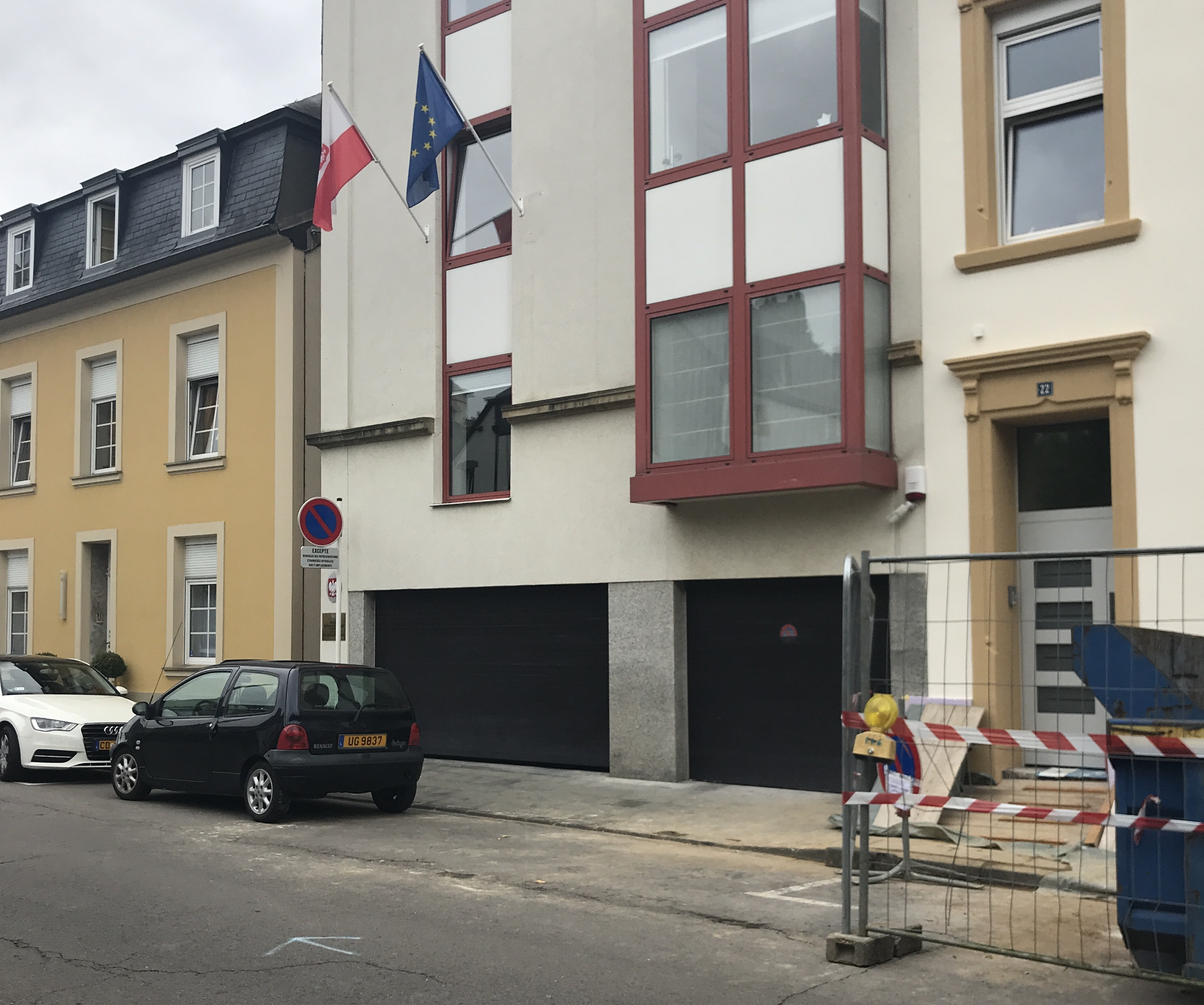 Embassy of the Republic of Poland in Limpertsberg, Luxembourg-City, Luxembourg